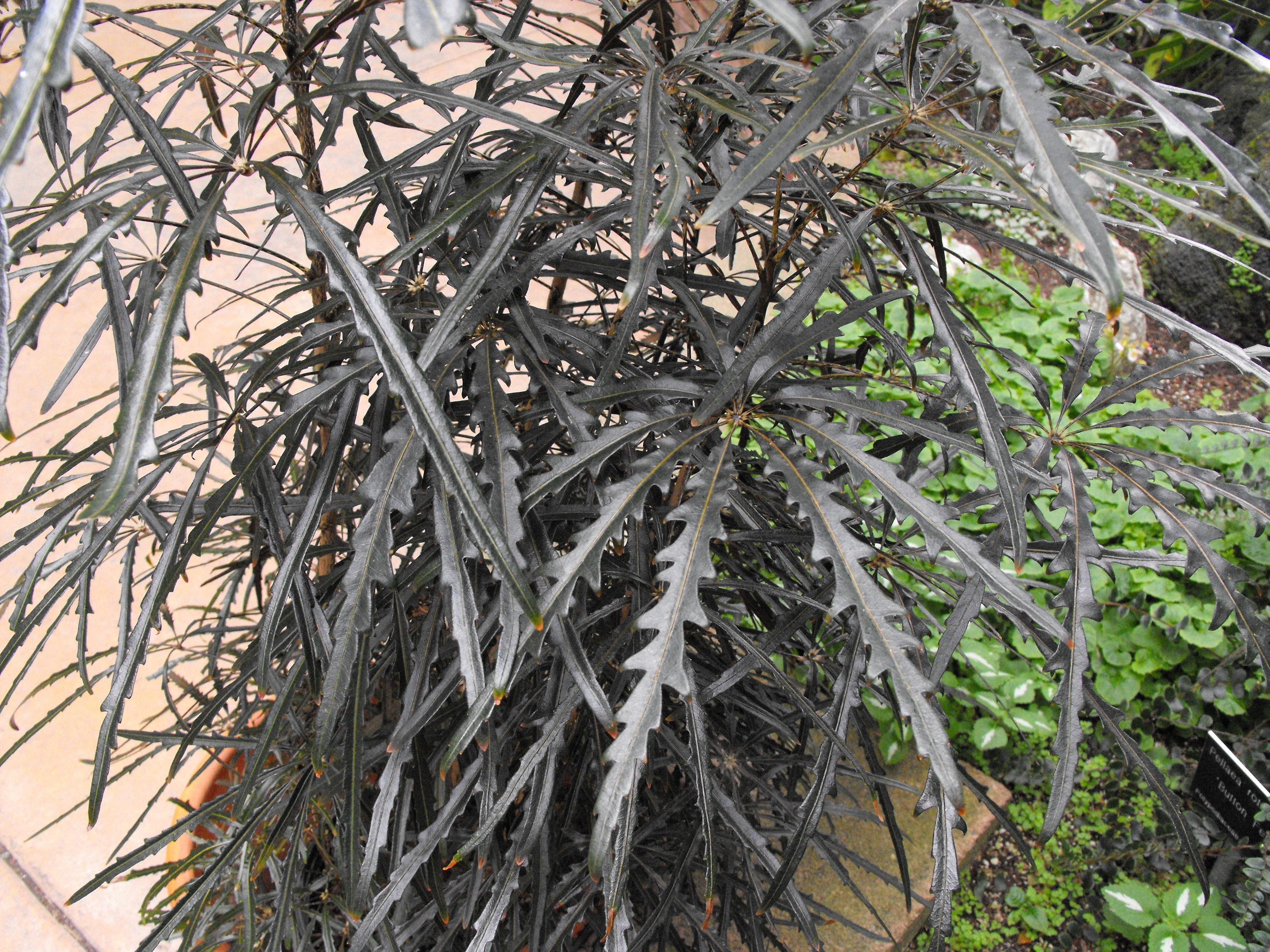 Schefflera elegantissima in the Botanical Building at Balboa Park, San Diego, California, USA